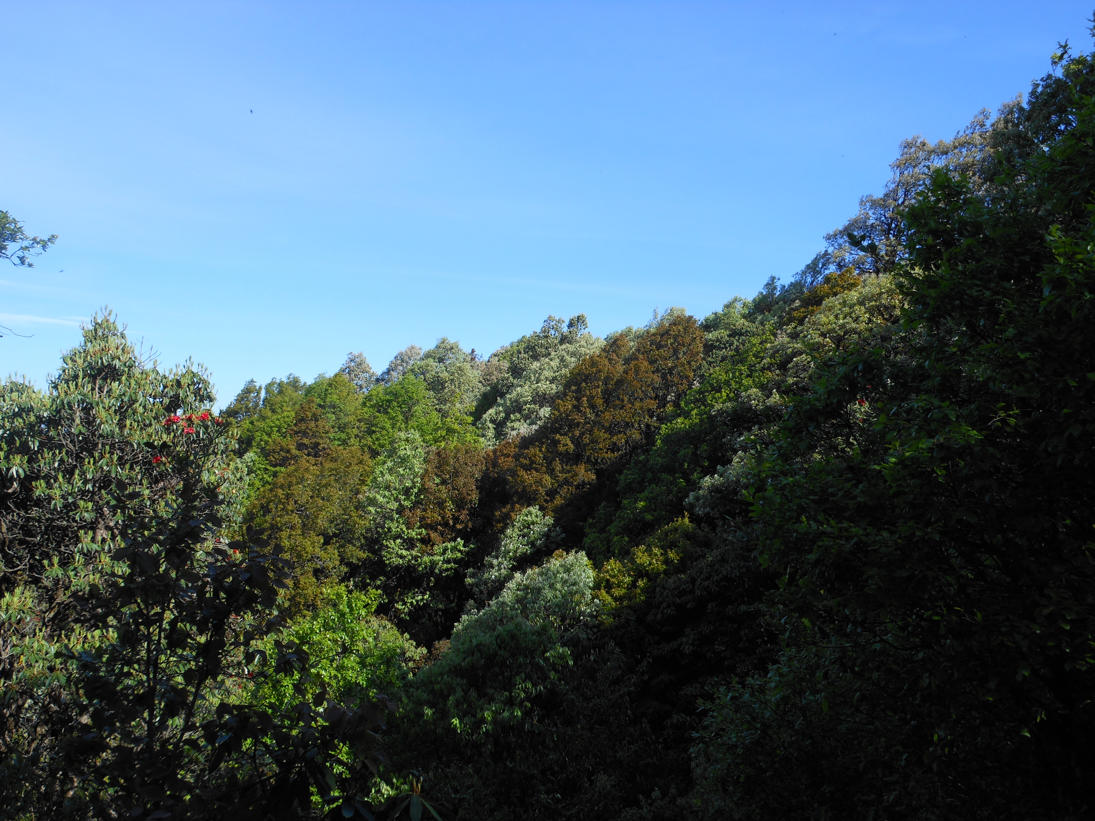 Oak forests on the mountain slopes of Binsar Wildlife Sanctuary